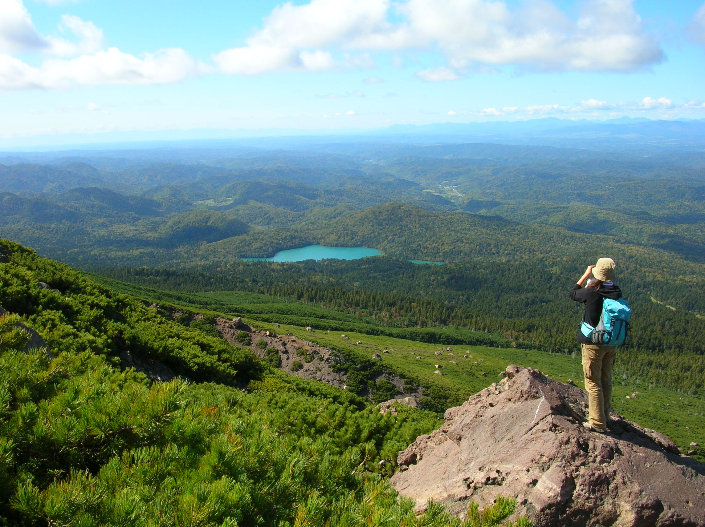 Lake Onnetō seen from Mount Meakan in Hokaidō, Japan.